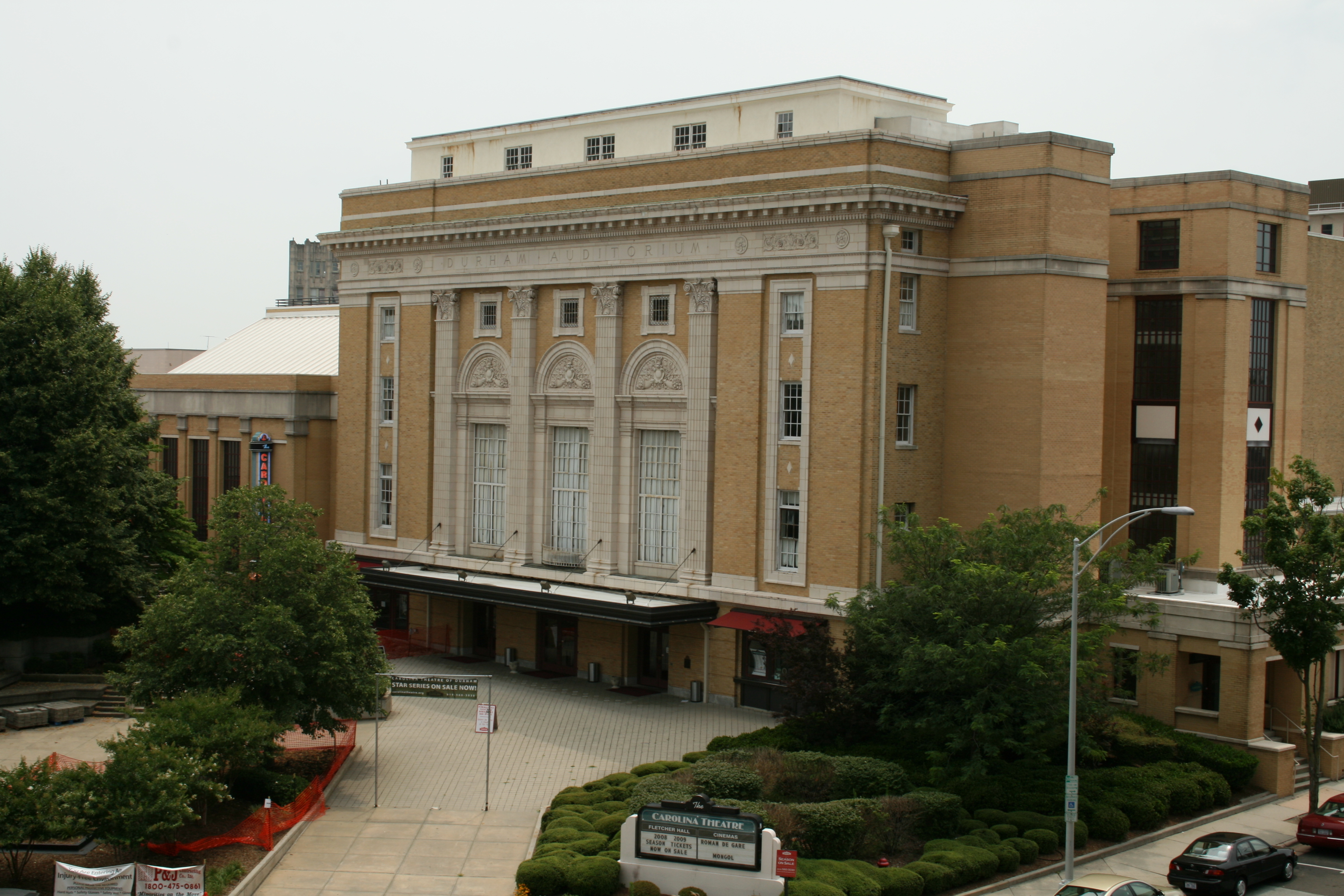 Carolina Theatre in downtown Durham, North Carolina.